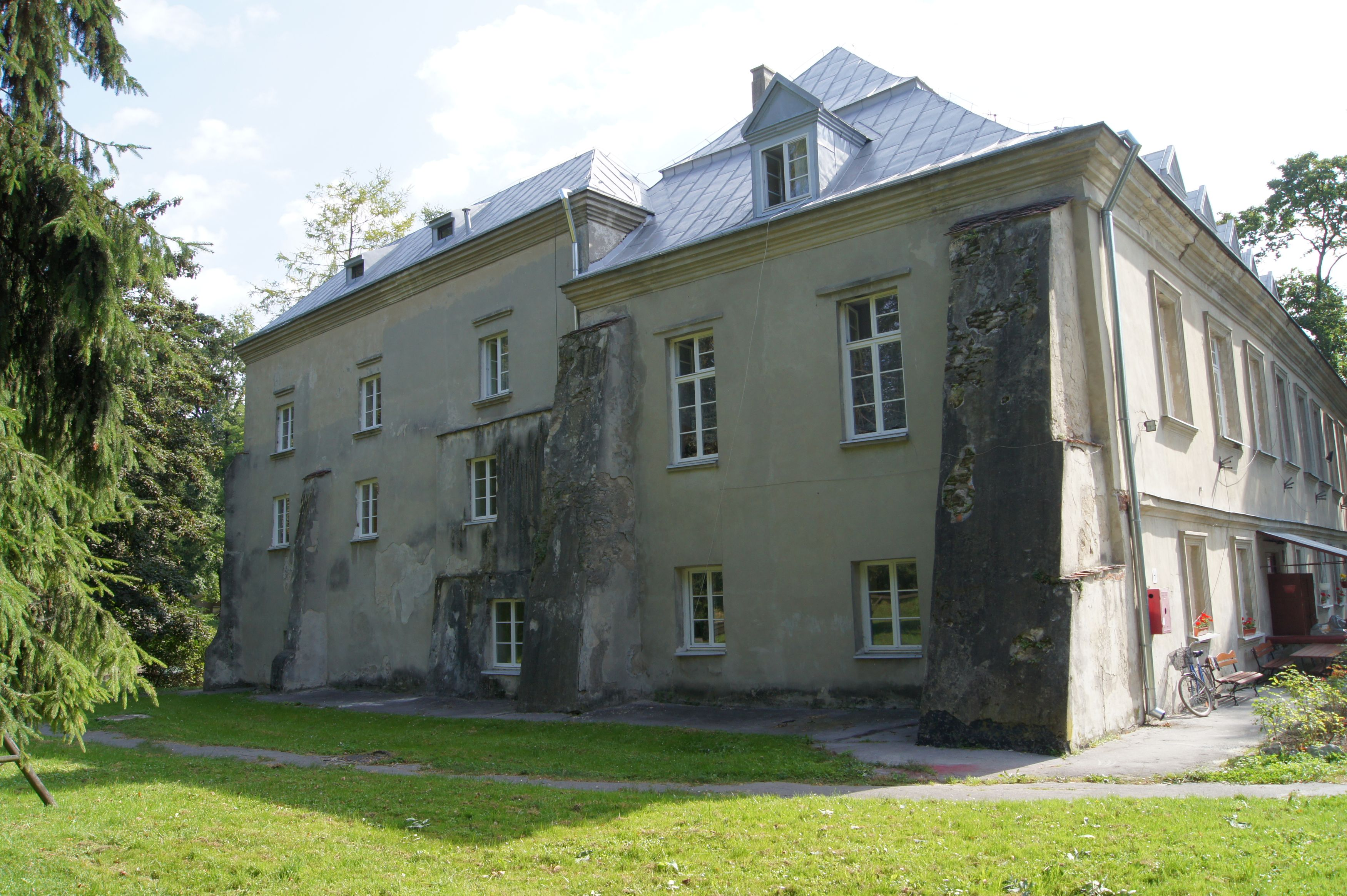 Gnojno - castle from the 16th century